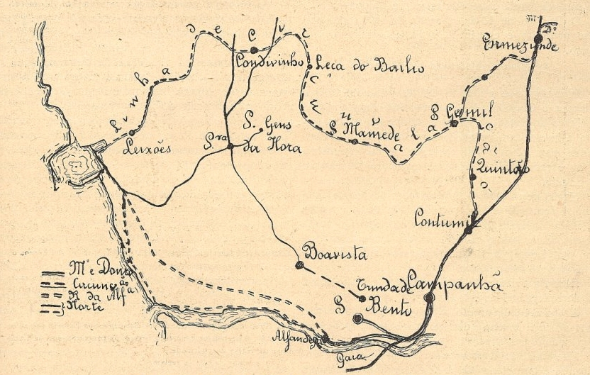 Map of the Leixões Railway, in Portugal, appearing with the original name, Linha de Circunvalação do Porto (Porto ring line). The cancelled project to extend the Alfândega branch to Leixões is also represented. This image was published on the Gazeta dos Caminhos de Ferro magazine No. 1219, of the 1st October 1938, and scanned by the Hemeroteca Municipal de Lisboa.